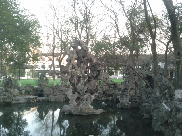 ruiyunfeng